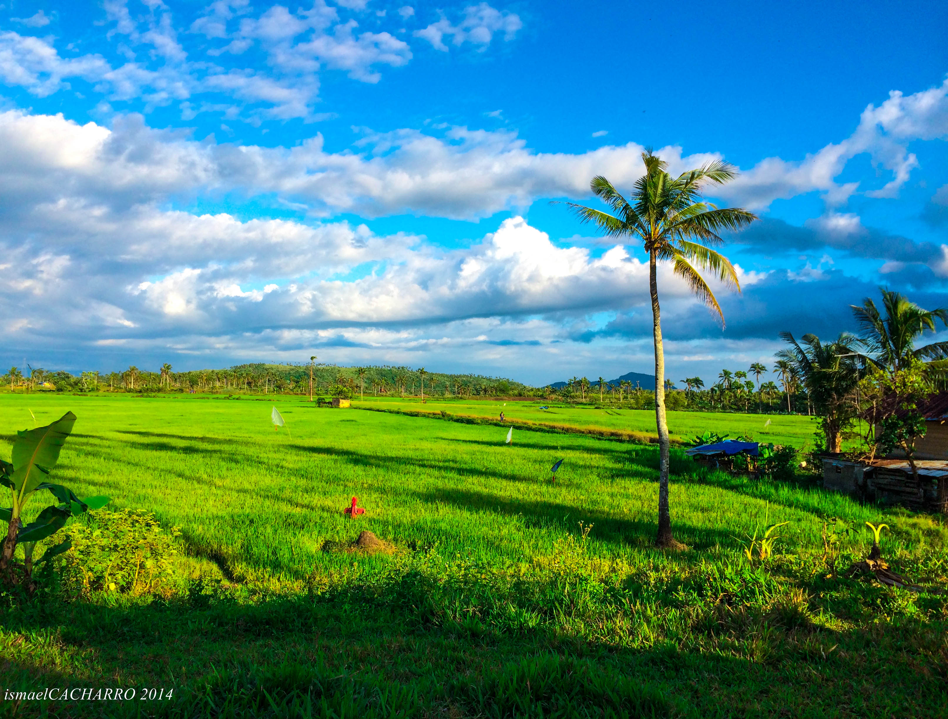 In Baranggay Pagsulhugon Babatngon Leyte